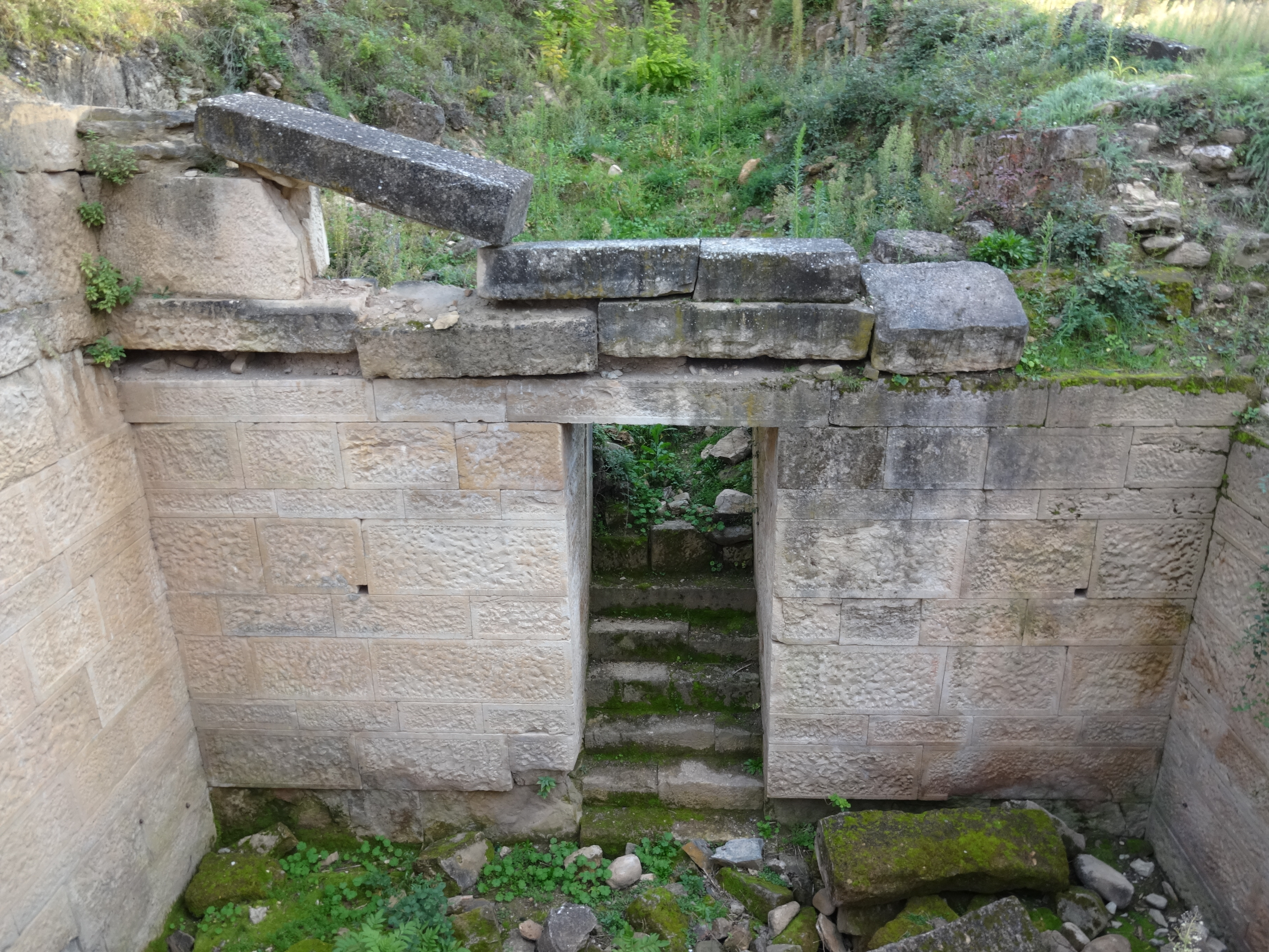 Archaeological site Gradište in Brazda near Skopje, Macedonia